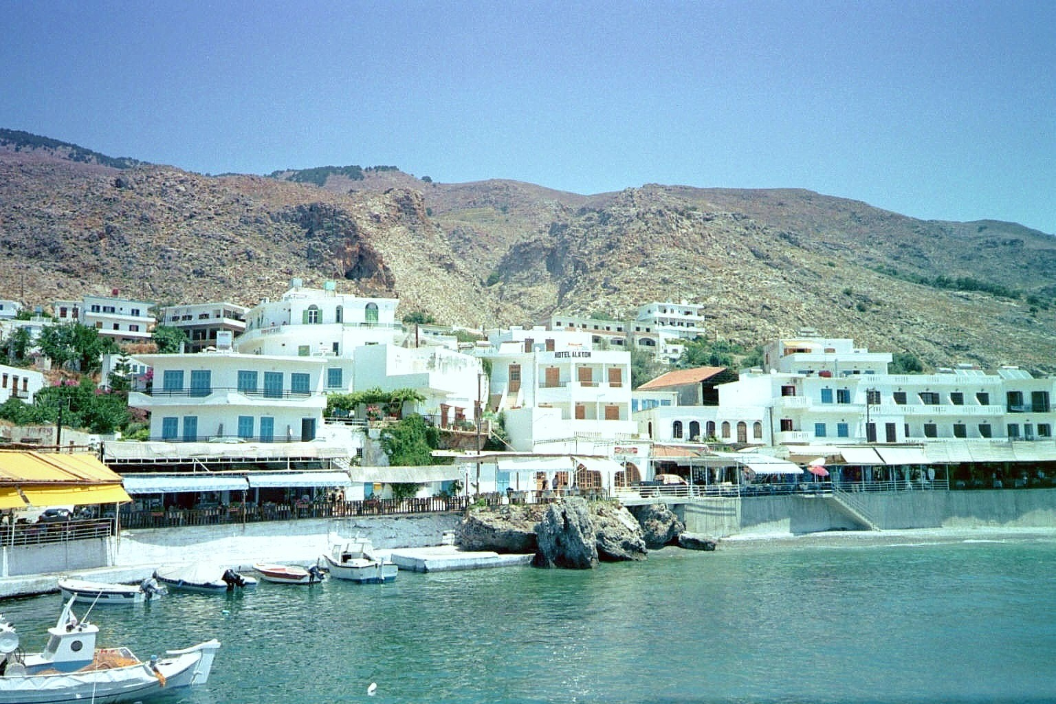 Small village Chora Sfakion in South-Crete